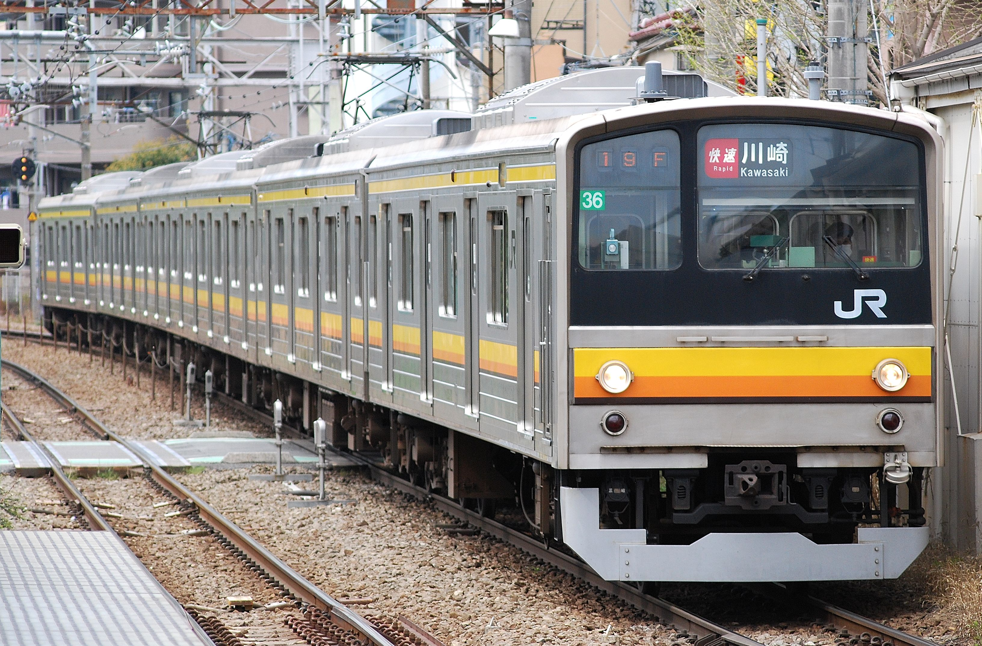 JR East 205-0 series 6-car EMU set 36 on a Nambu Line rapid service